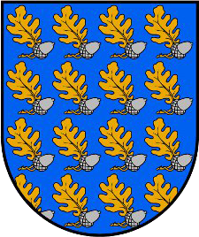 Coat of arms of Lubāna municipalityLatviešu: Lubānas novada ģerbonis